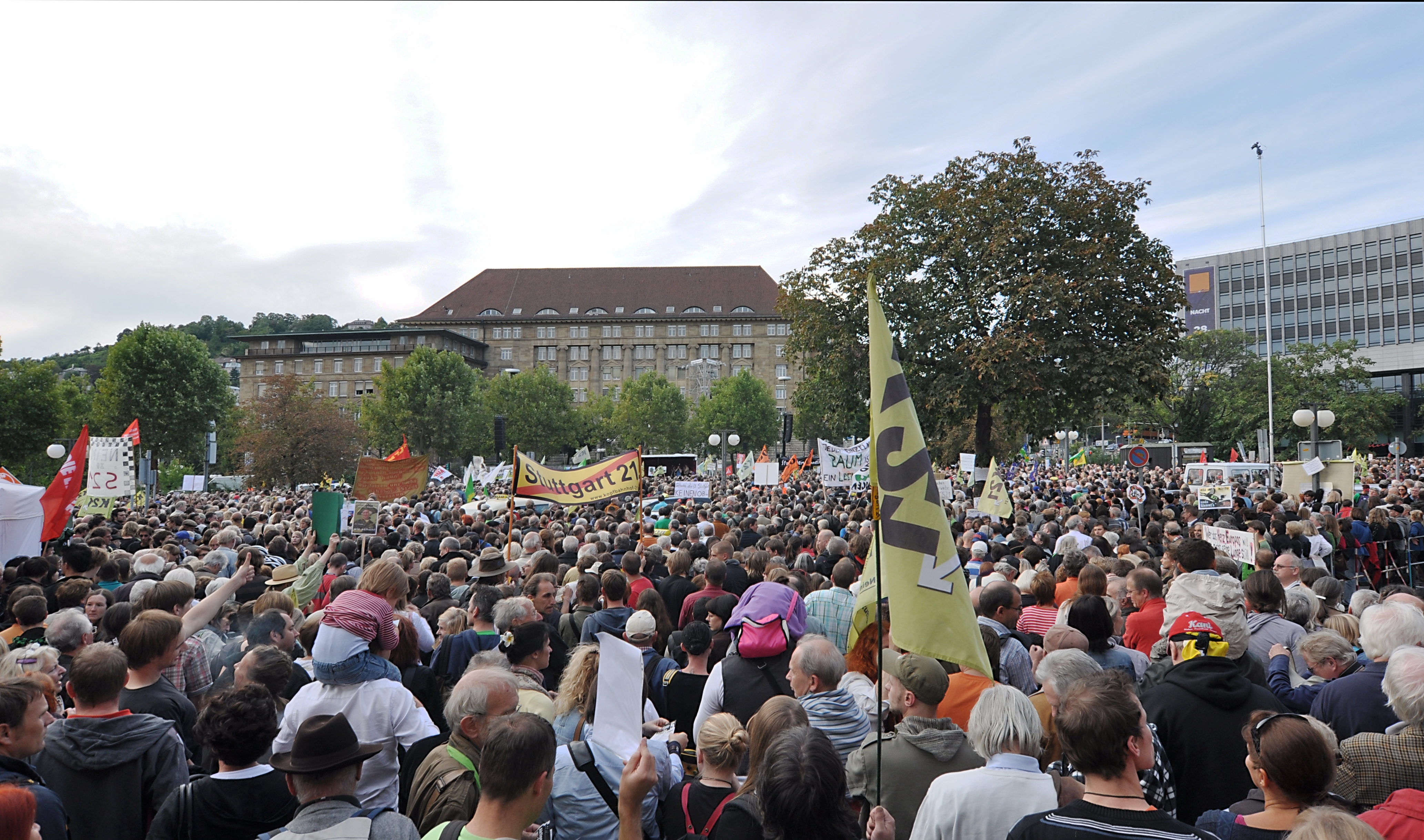 Demonstration against Stuttgart 21 in front of the north portal of Stuttgart central station